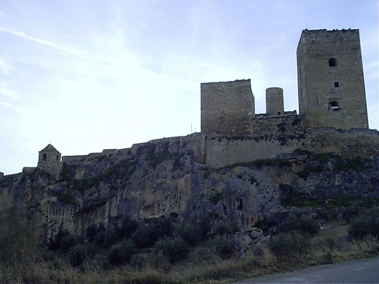 Image of the Spanish castle of La Guardia de Jaén (north wall), probably dating from the VIII century, Arabic period.